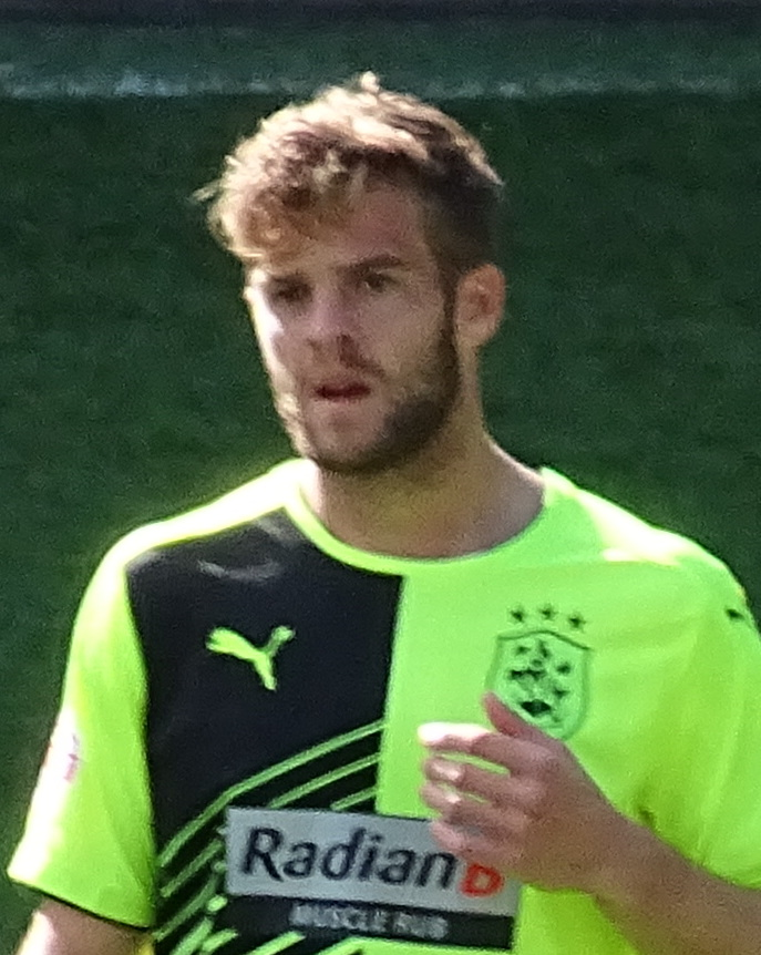 Martin Cranie playing for Huddersfield Town against Cardiff City in 2015